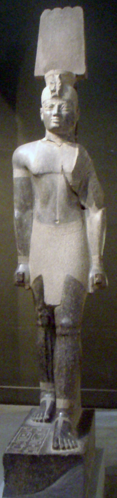 Statue of the Kushite pharaoh Aspelta, made during the Napatan period, circa 620-580 B.C. Made of granite gneiss. Originally in the Great Temple of Amen at Gebel Barkal in what is now Sudan, now residing in the Museum of Fine Arts, Boston.